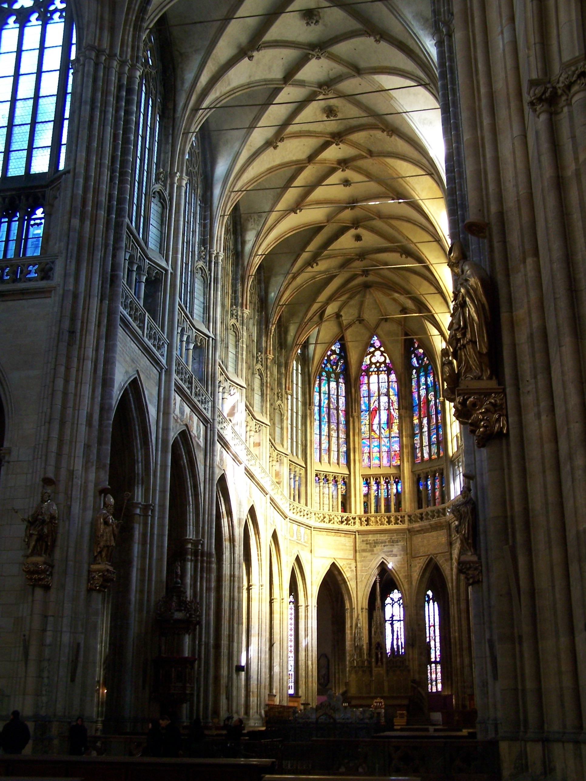 Interiour of St. Vitus' Cathedral in Prague.